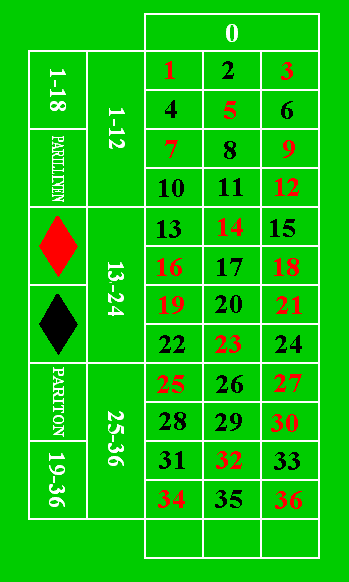 A Finnish Roulette board.